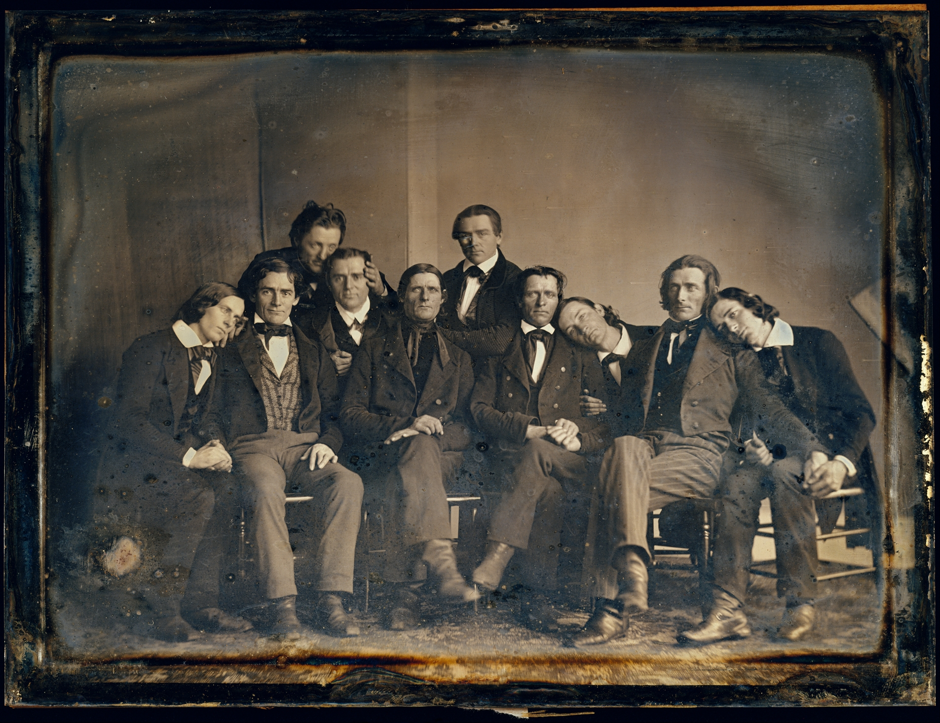 Hutchinson Family Singers, 1845. "Unknown Artist, American School: Hutchinson Family Singers (2005.100.77)". In Heilbrunn Timeline of Art History. New York: The Metropolitan Museum of Art, 2000–. (October 2006)